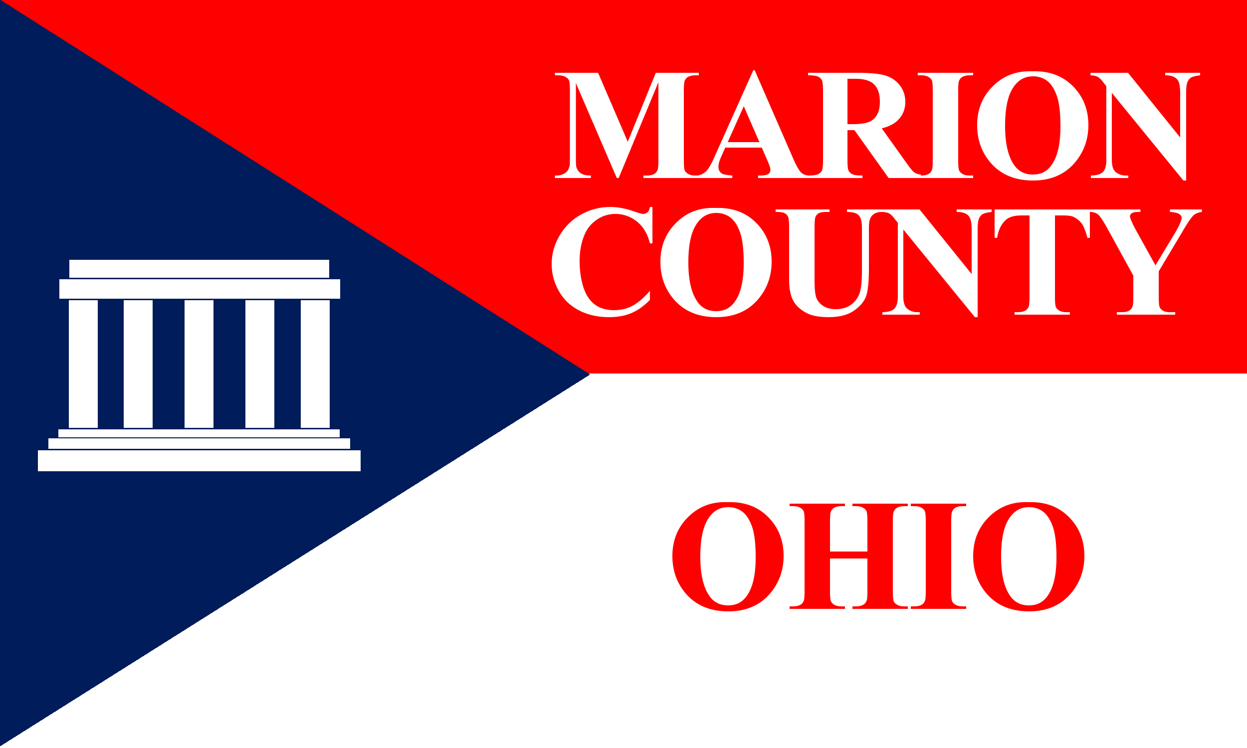 Official flag of Marion County, Ohio